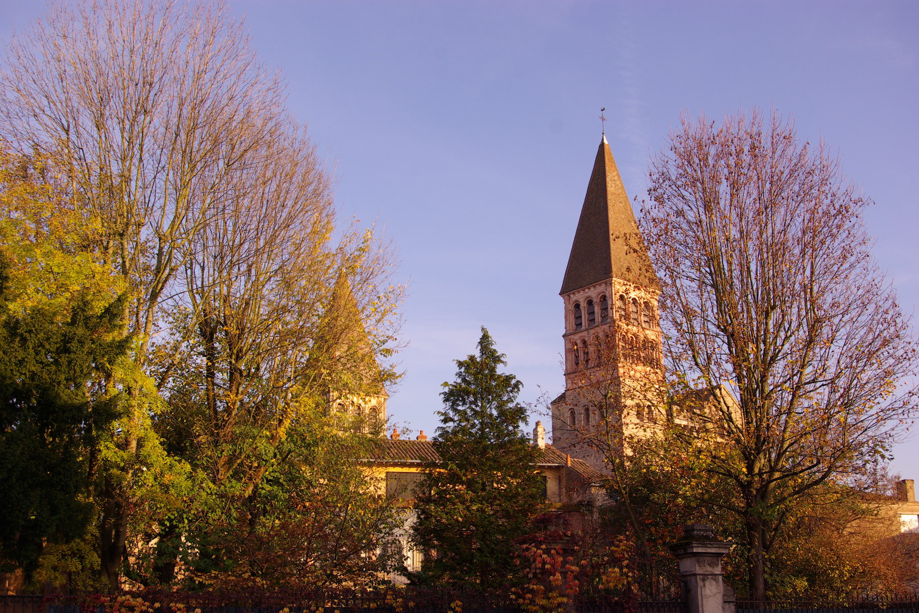 Saint-Philibert de Tournus in November